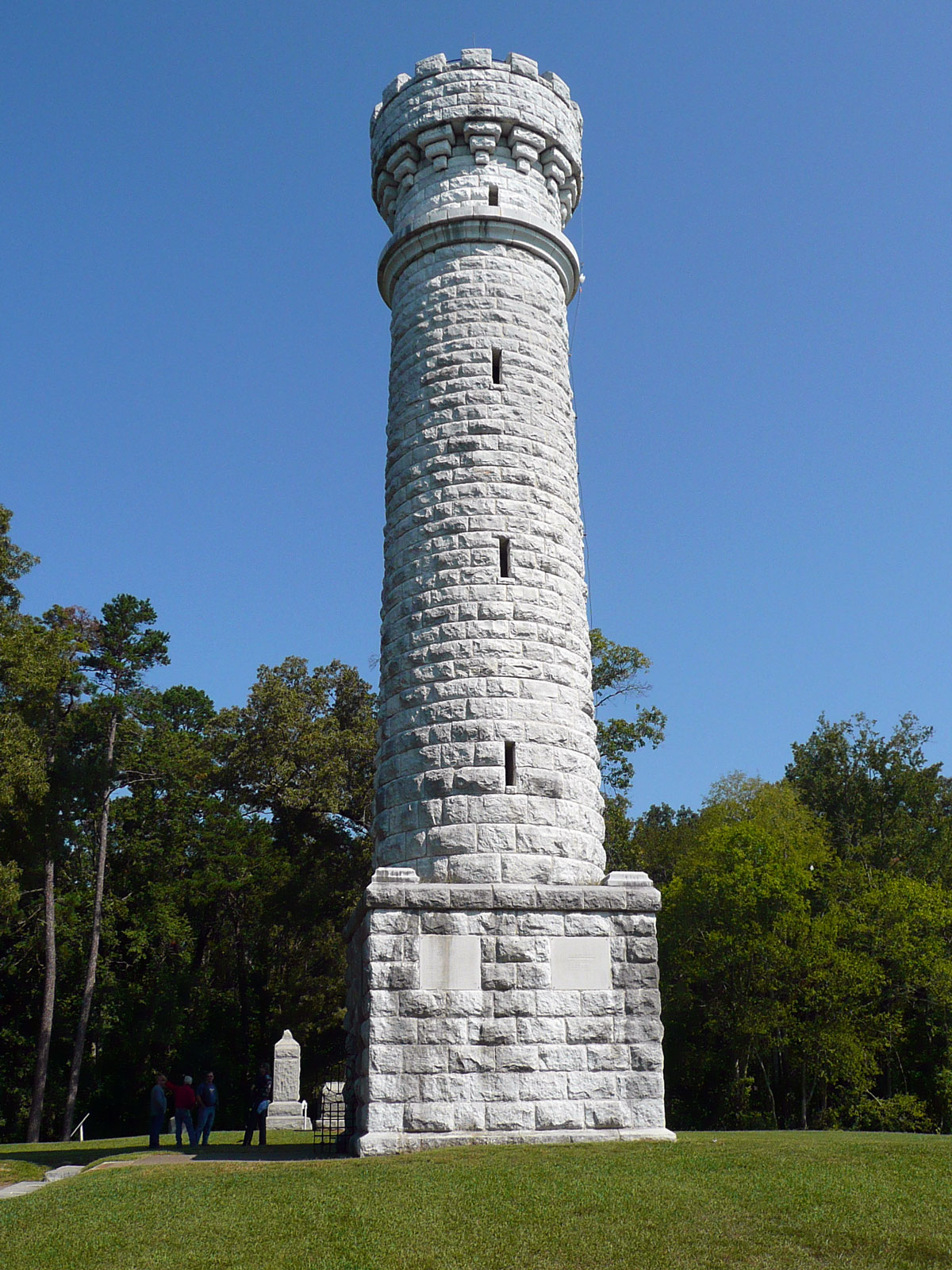 Monument to John T. Wilder's Lightning Brigade at Chickamauga and Chattanooga National Military Park, Georgia, photographed by Hal Jespersen, September 2008.